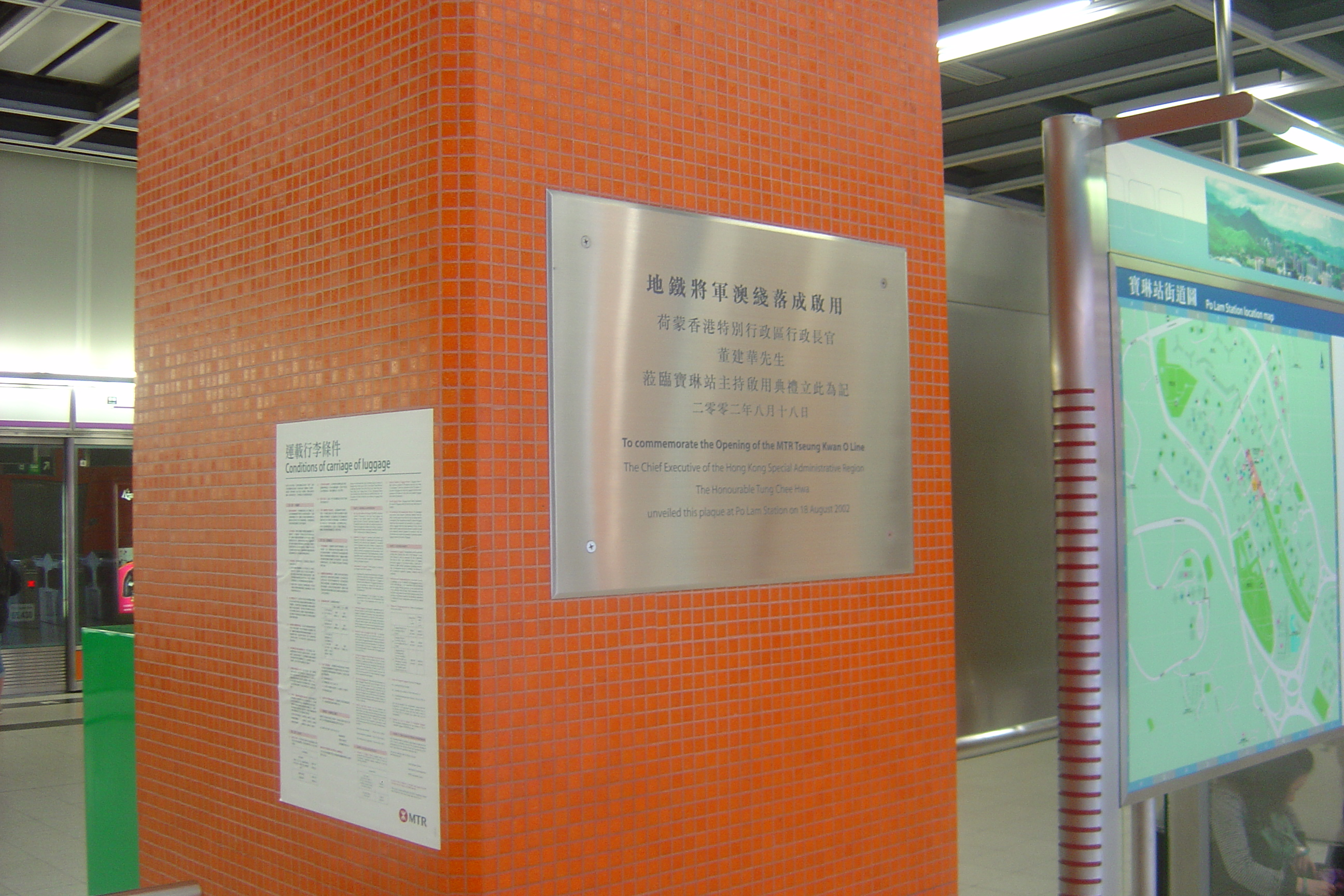 The commemoration plaque of the opening of MTR Tseung Kwan O Line, located at the concourse of Po Lam Station, Hong Kong. 中文（香港）: 港鐵將軍澳綫通車紀念碑記，位於寶琳站大堂。